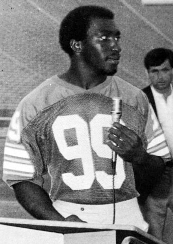 Hugh Green, defensive end for the Pitt Panthers of the University of Pittsburgh in 1979. Pitt won the game 35-0.